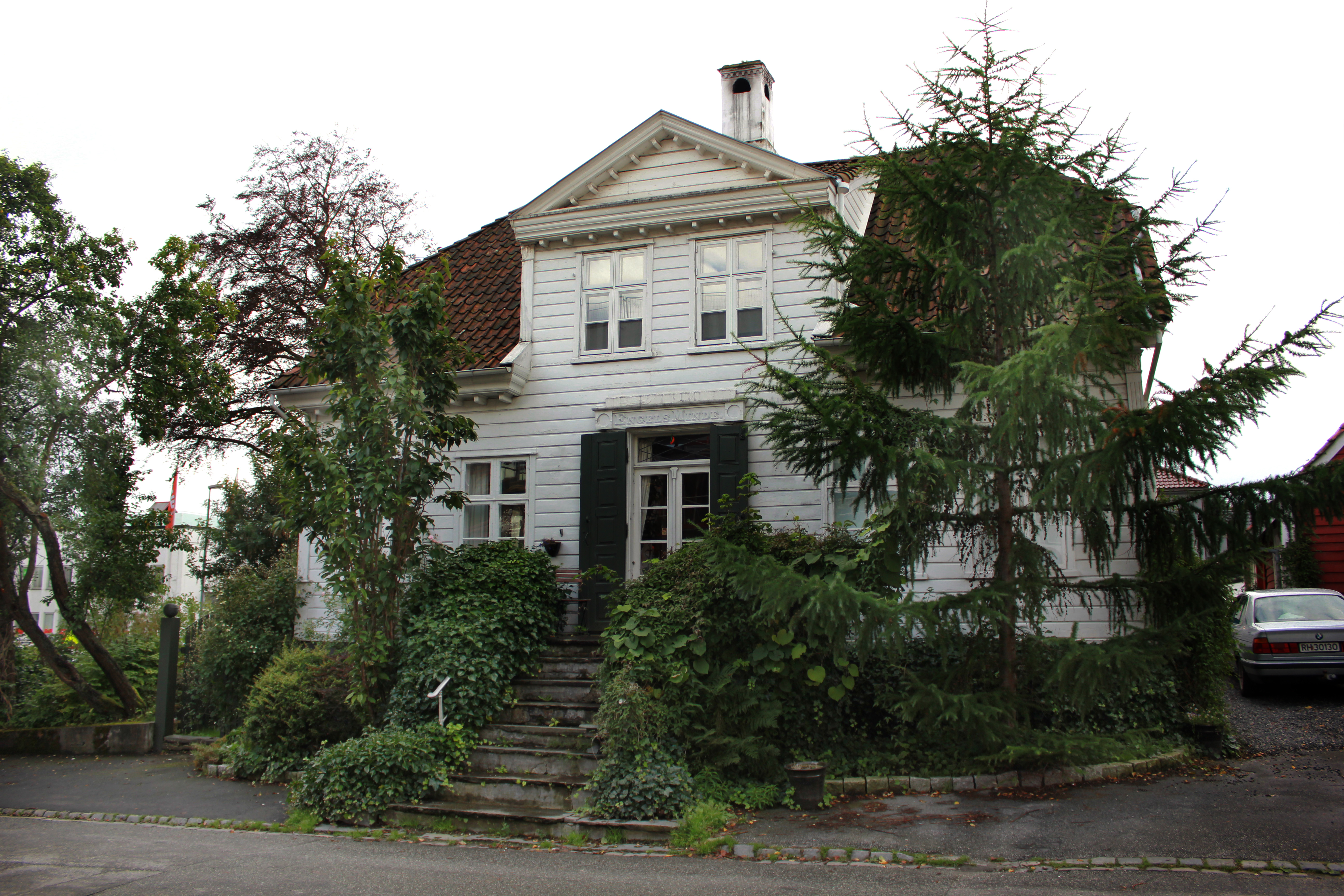 Engels minde in Stavanger, Norway